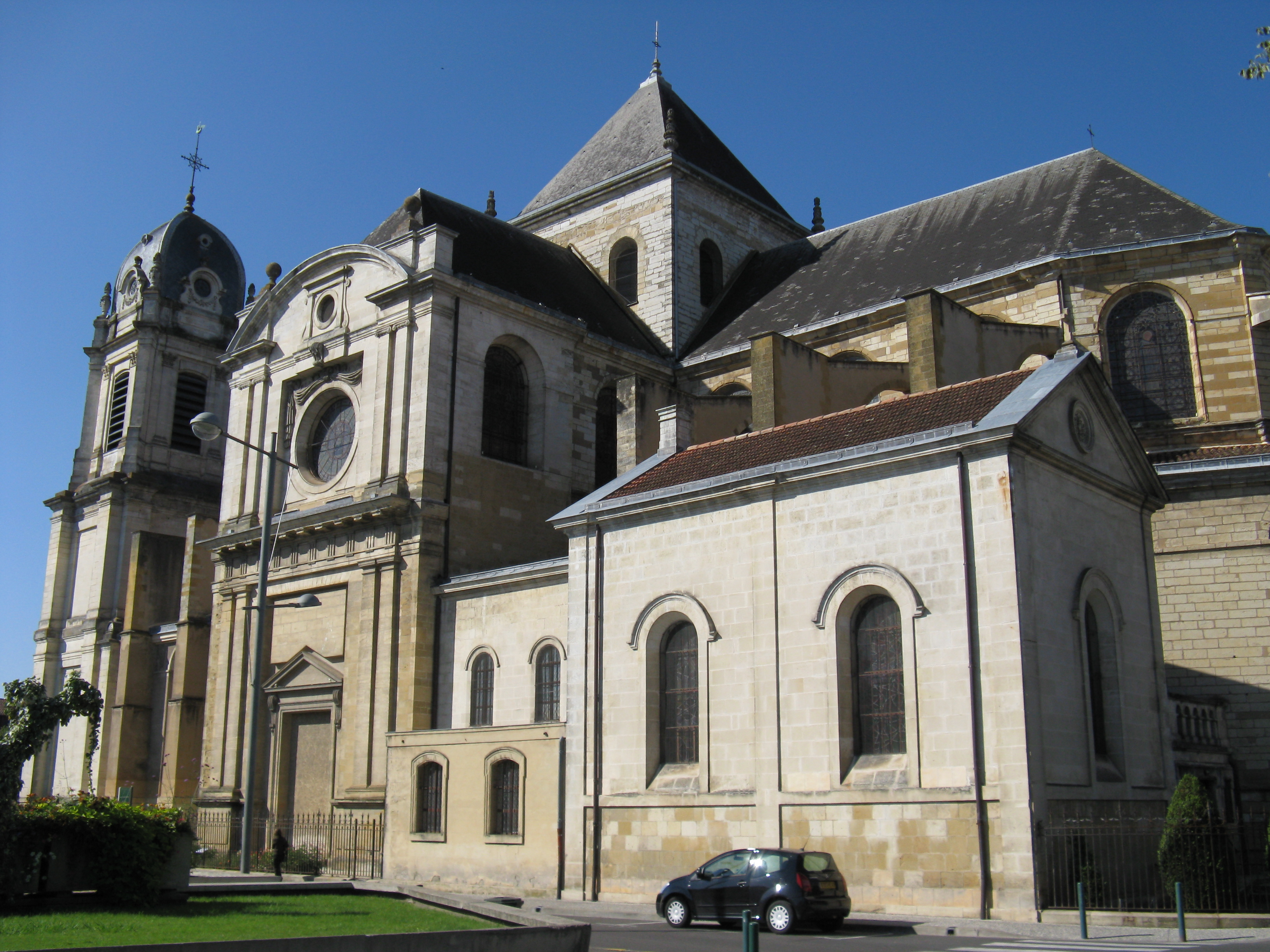 The cathedral of Dax